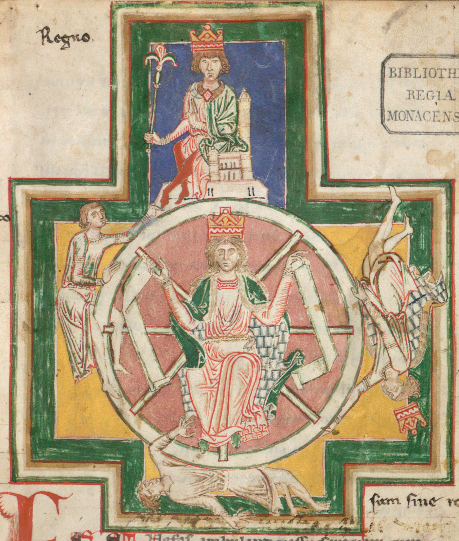 Bavarian State Library, Munich, Codex Buranus (Carmina Burana) Clm 4660; detail from fol. 1r: Miniature of the Wheel of Fortune